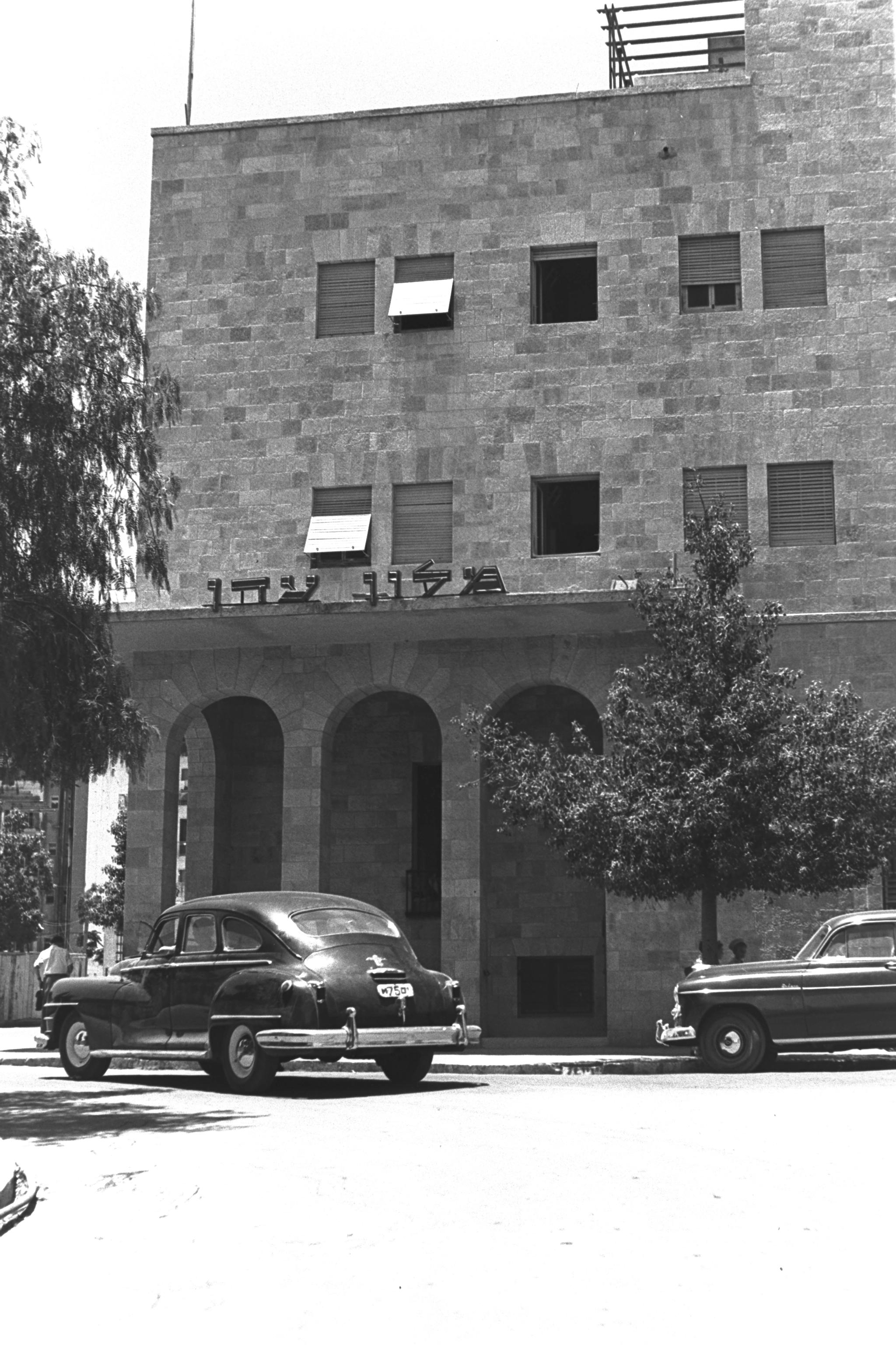 Original Description: THE "EDEN" HOTEL IN JERUSALEM.